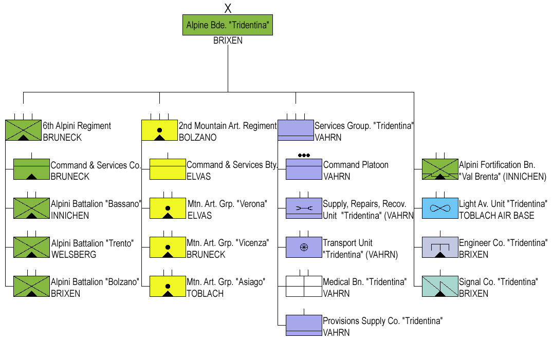 Structure of the Italian Army "Tridentina" Alpine Brigade in 1974